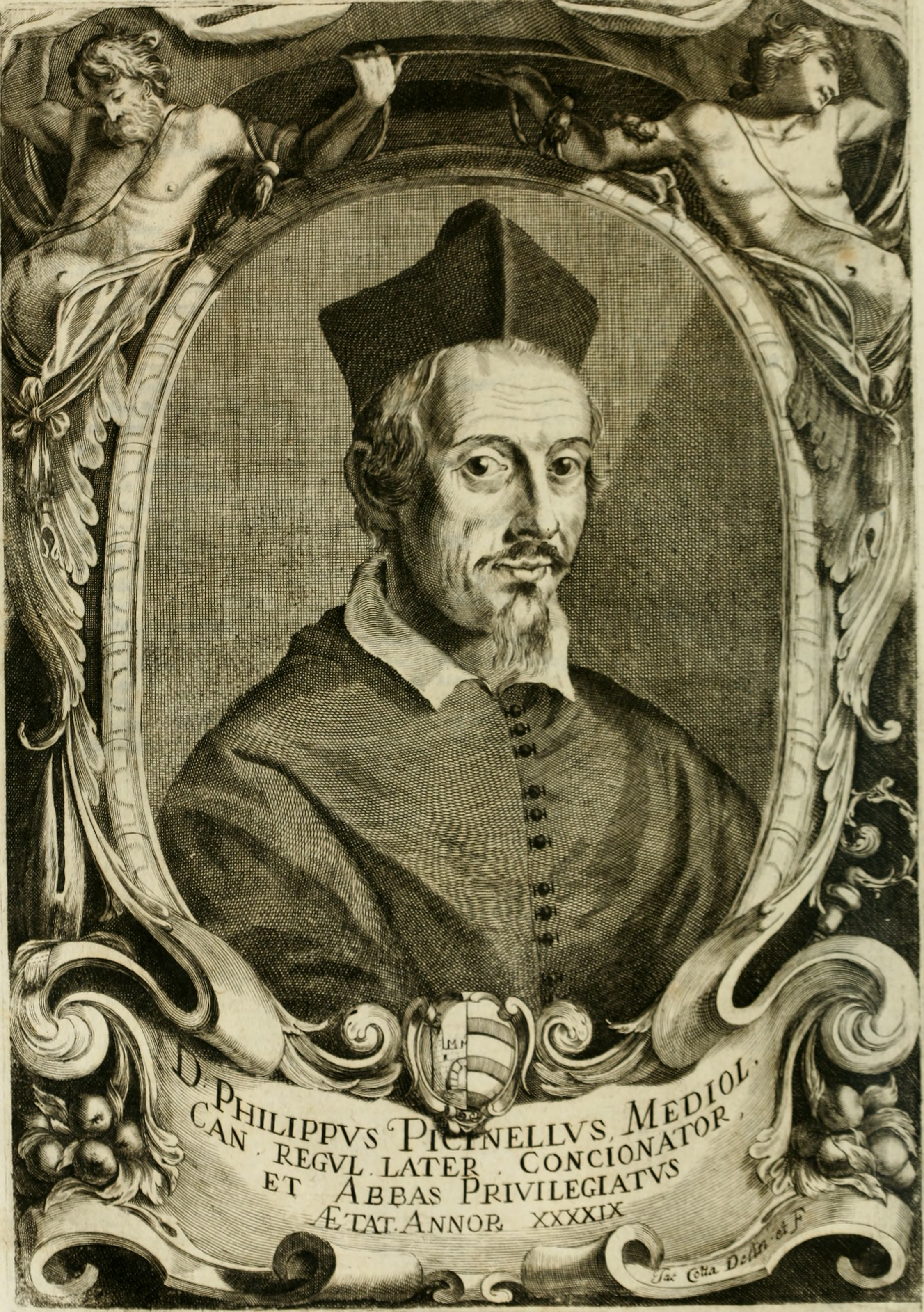 Title: Mondo simbolico : o sia vniversita d'imprese scelte, spiegate, ed' illvstrate con sentenze, ed eruditioni sacre, e profane Year: 1653 (1650s) Authors: Picinelli, Filippo, 1604-ca. 1667 Subjects: Emblems Symbolism Natural history Industrial arts Publisher: In Milano : Per lo Stampatore Archiepiscopale, ad instanza di Francesco Mognagha Text Appearing Before Image: lpitioSidonio ApollinareSilio ItalicoSimon di CaffiaSimon MaioloSimon MetafrafleSimplicioSinefio Sinodo AleffandrinaSiriacoSijlo FilofofoSocrateSofocleSofronioSpartiam Statio Stefano Cantuanenfe Suetonio Sulpitia TAtianoTebaldo Temiflio TeocritoB. Teodoreto Teodoro Studiti Teodato Vefcouo dAndra Teofilatto Teofilo Antiocheno Teofraflo Teofrido Abbate Tcogmde Teolepto Terentw Tertulliano Tibullo TigurinaS- Timoteo Oerofolimitano Tito Bofirenfe Tito Liuio Tomafo AnglicoS. Tomafo dAcquino Tomafo B07J0 Tomafo di Fio Caietan» Tomafo Kempenfe Can.Reg. Tomafo Moro Tomafo Stapletone Tomafo StiglianoB.Temafo ViUanoua Torquato TajfoTrcbellw ToUoneTucidide S.XT Alenano V Valerio Fiacco Valerio MaffimoM. Varrone Vatablo Vegetto Velleio Vaterculo Venantio Vgon Cardinale Vgon Vittorino Con. Reg. Vincenzo BeluacenfeS- Vincenzo Ftrrern, lincendo Lirincnfe Virgilio Vittore Antiocheno Vlijje AldrouandoB.Vmberto Vniuerfità Tarigma Vrbano I. Vrbano Vili. XT Lnofonte Xifilino S. nrEno Verone fé DEL I I Text Appearing After Image: ■DEL MONDO SIMBOLICO LIBRO PRIMO-corpi CELESTI- Cielo Luce Alba Aurora Sole Sole nel Zodiaco EccMi del Sole e. i Luna c.z Ecclillì della e. 3 Stelle e. 4 Aquario e. 5 Orfa e. 6 GalaiTia)via e. 7 Notte Lunalattea e. 8e. 9 CIOC. IIC. 12 ci je. 14 c I E L O Capo I.